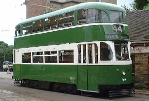 Liverpool Tram Number 869 that I took at Crich Tramwauy Museum.